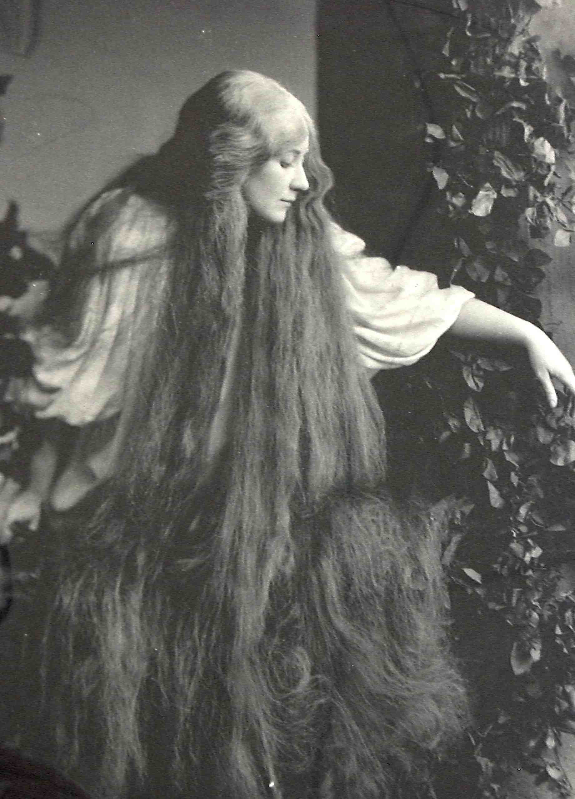 Opera singer Mary Garden dressed as Melisande for the opera, Pelleas and Melisande.